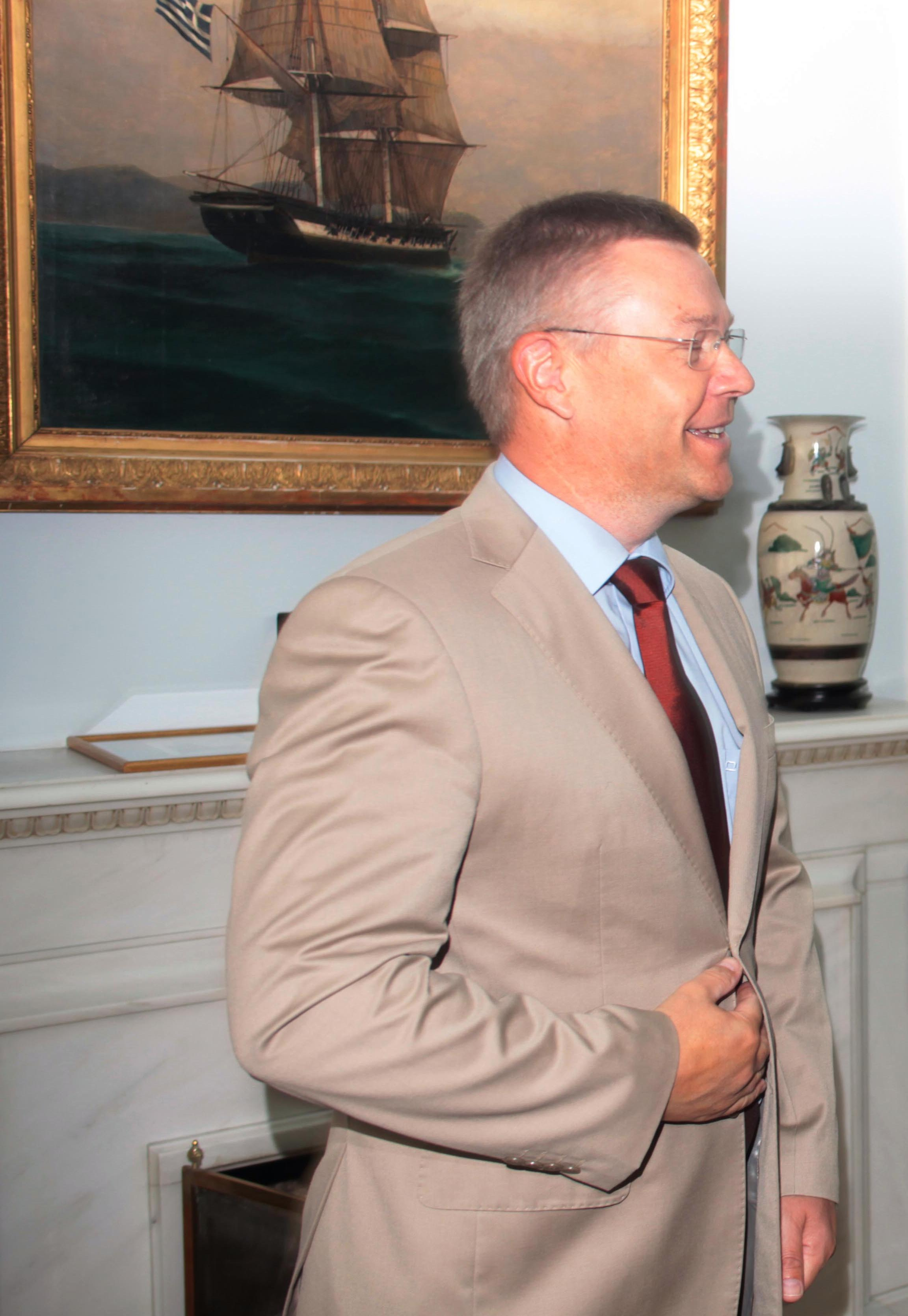 Ilkka Laitinen, Finnish Brigadier general and Executive Director of the European Union’s border protection agency Frontex, 2008 in Athens.